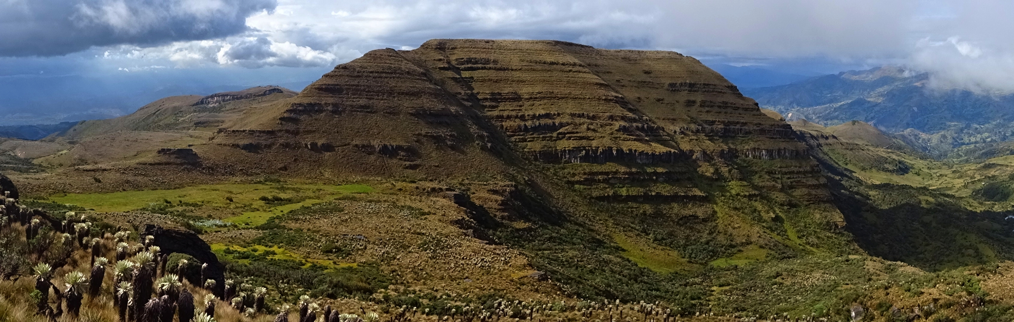 Panorama of the "Cerro de Águilas", Páramo de Ocetá, Boyacá, Colombia